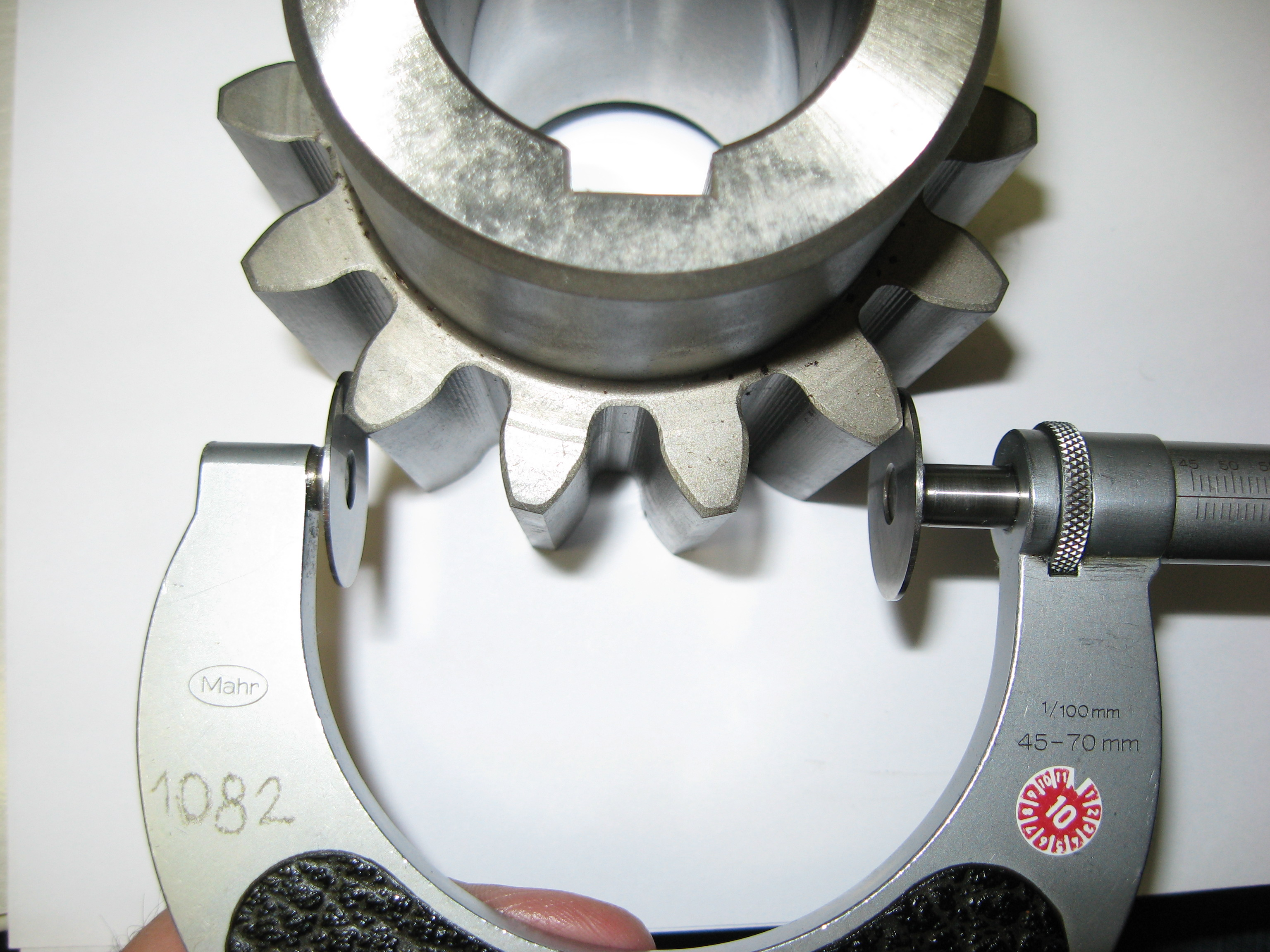 False Measuring of the Tooth Width of a Gear Wheel